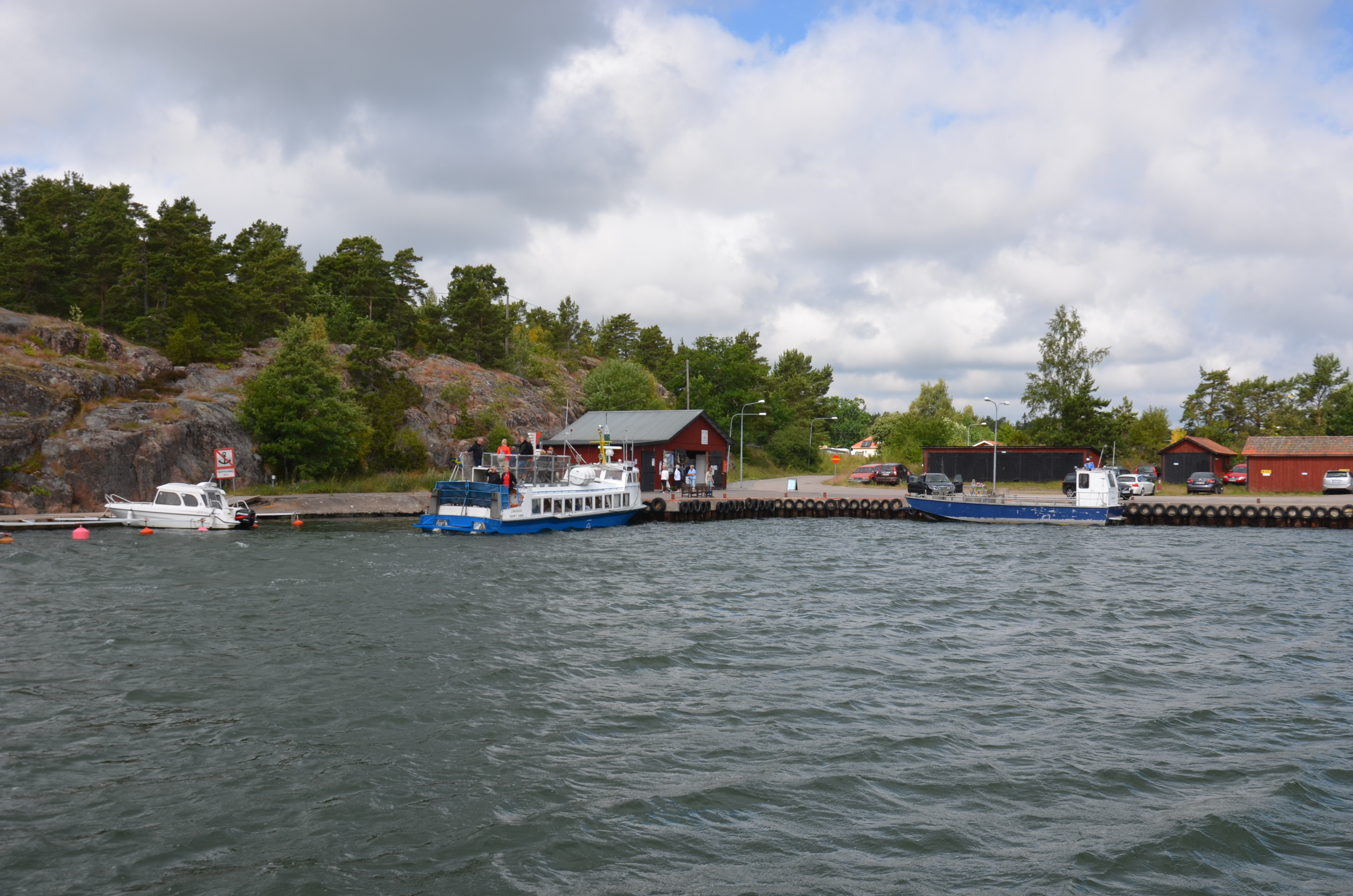 Tyrislöt harbour, Sankt Anna archipelago, Söderkping Municipality, Sweden